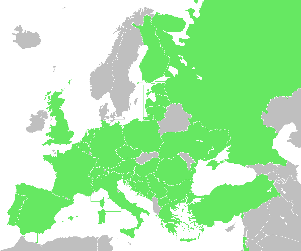 Map of countries which have been represented in the Eurocup basketball competition.